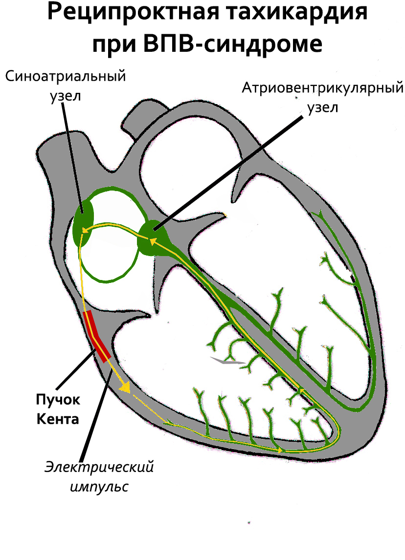 WPW tachycardia pathogenesis